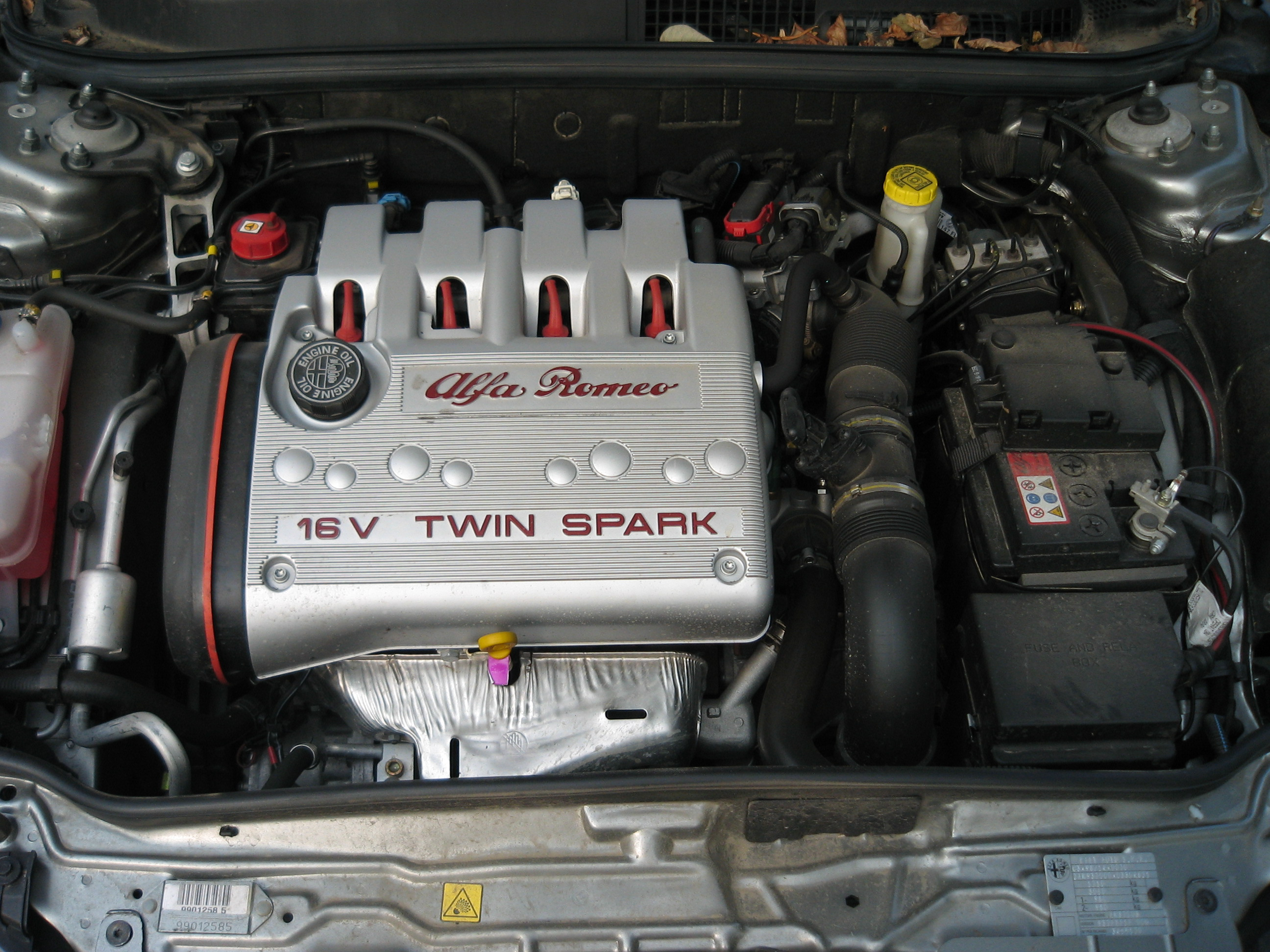 Alfa Romeo 16V Twin Spark engine